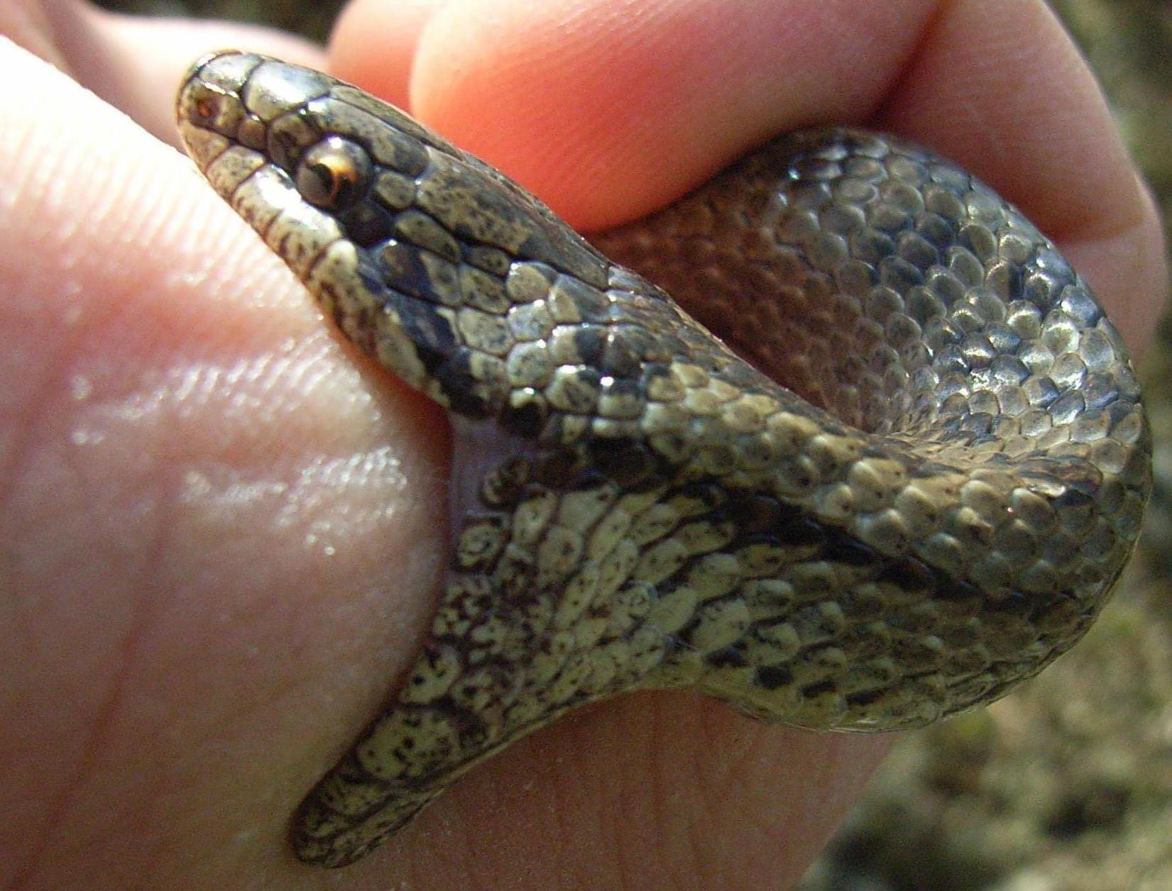 The Smooth Snake often bites when caught, but this bite is completely harmless and does not hurt.